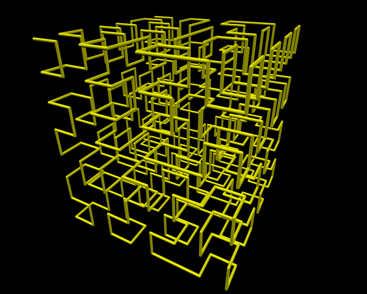 2nd iteration of Hilbert curve in 3D. If you're looking for the source file, contact me.